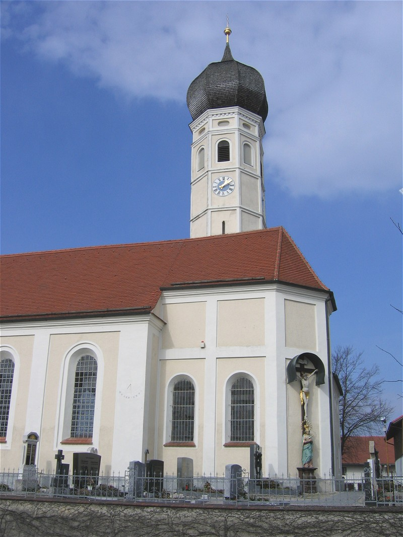 Oberpframmern, choir and bell tower of St Andrew's Parish Church from south (Glonner Straße).